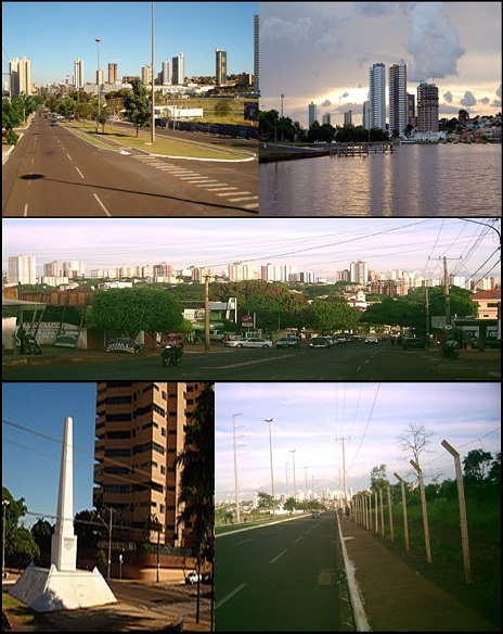 Images of the Campo Grande, Mato Grosso do Sul, Brazil.